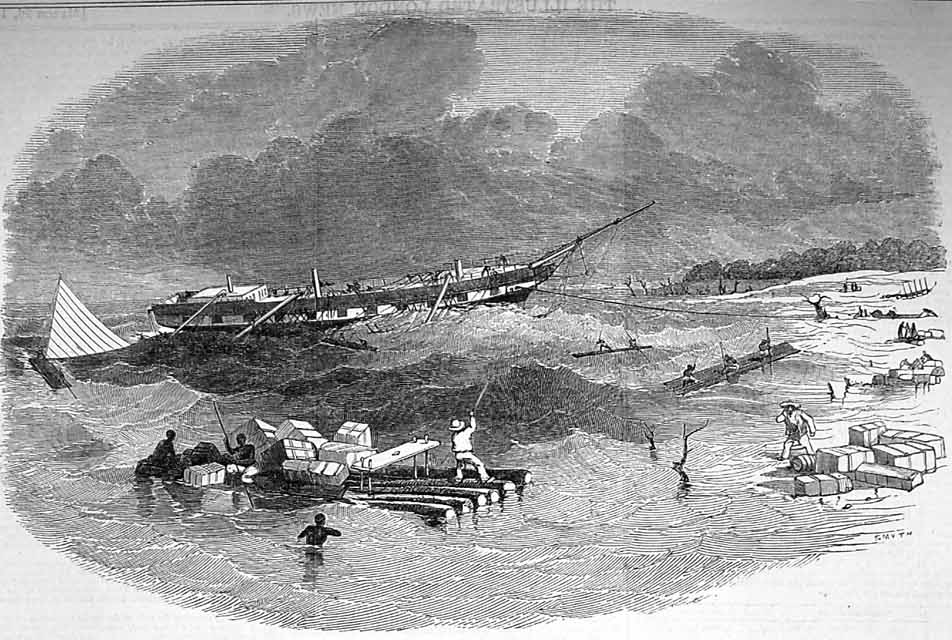 "The barque "Sir Fowel Buxton" on shore at Capin Assu, on the north-east coasts of Brazil" in The Illustrated London News, 1853, p. 229